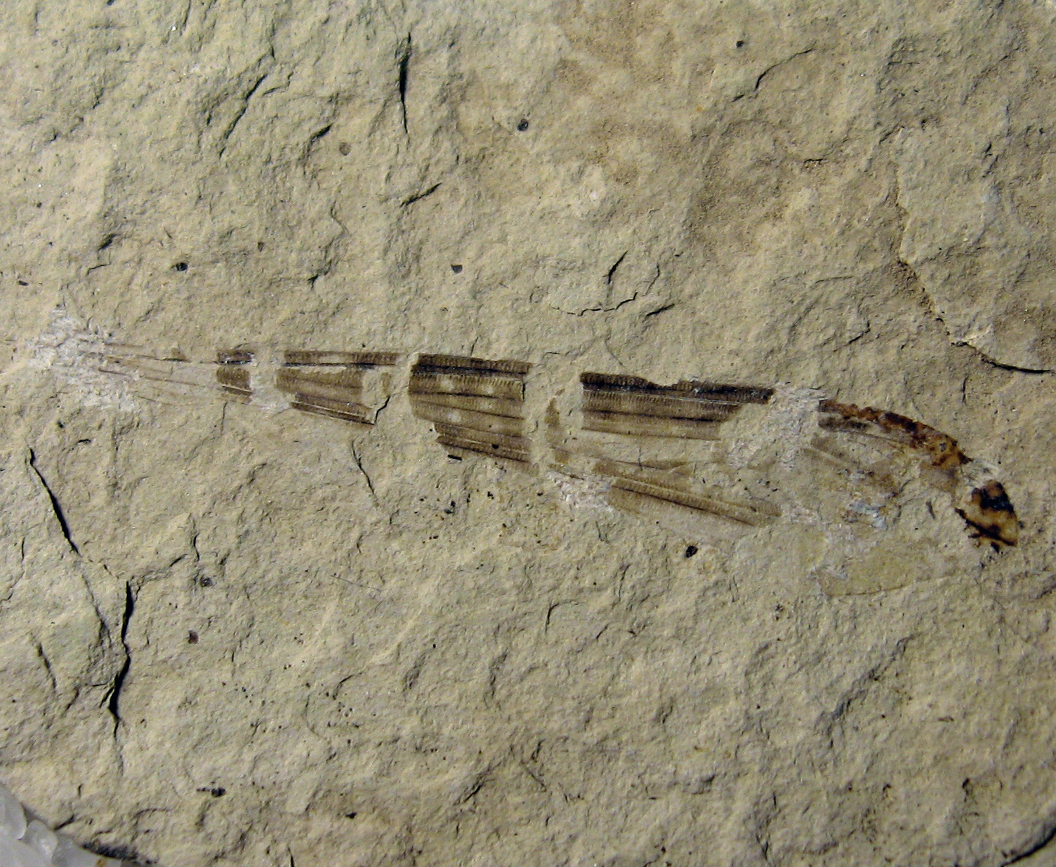 Paratype wing of the extinct Cimbrophlebia brooksi. Photographed after description. 49.5 Million Years old; "Boot Hill", Klondike Mountain Formation, Republic, Washington, USA. Stonerose Interpretive Center Collection # SR 99-04-05.